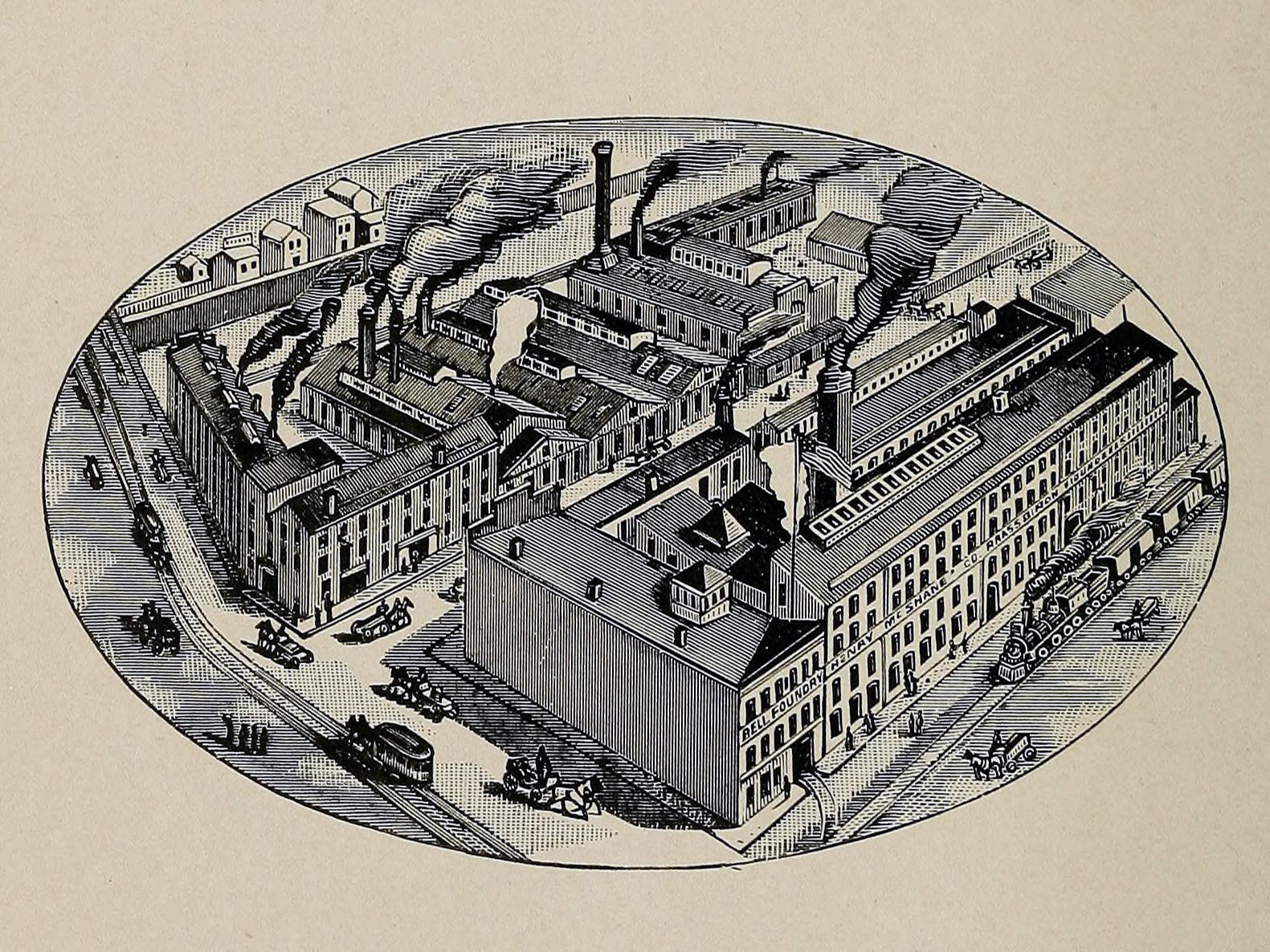 Illustration of the McShane Bell Foundry factory complex located at 415-441 North Street (Guilford Avenue), Baltimore, MD. Cropped from page 53 in a 1900 trade catalogue. From an original located at the Library of Congress. Digital image available through the Internet Archive, mcshanebellfound00mcsh.